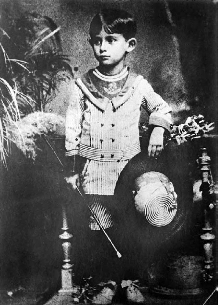 Studio photo of Frank Kafka.